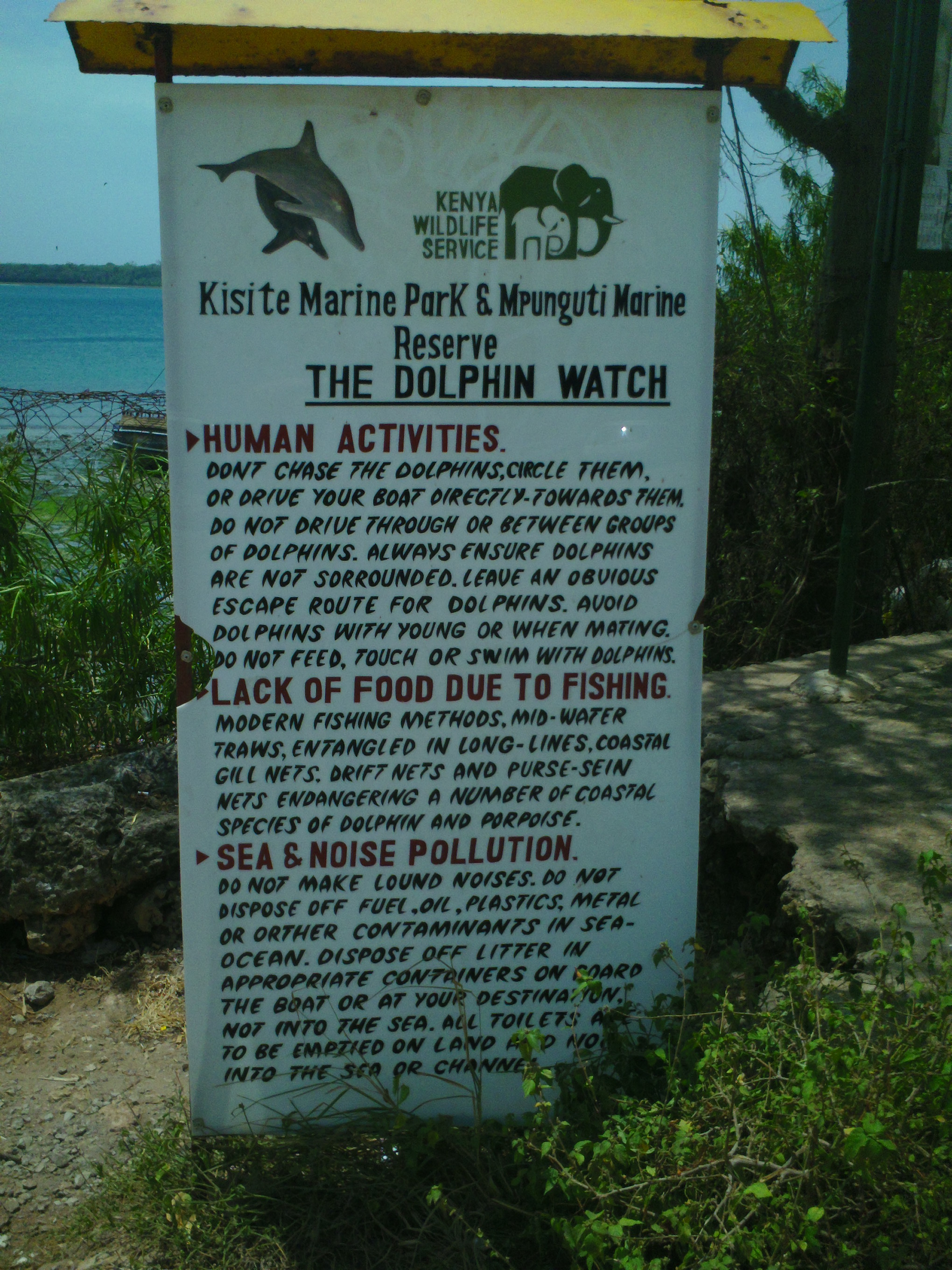 The conservation sign at Shimoni's jetty. The jetty is where nearly all tour dhows take off and anchor.